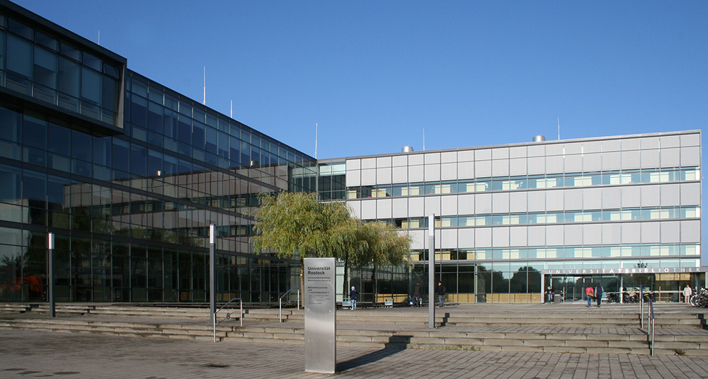 Universitätsbibliothek Rostock - Bereichsbibliothek Südstadt